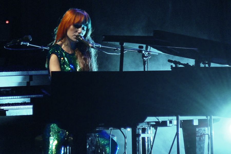 Tori Amos in concert as part of her American Doll Posse tour. Performing as the Tori character